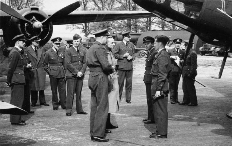 Royal Air Force Bomber Command, 1942-1945. The Secretary of State for Air, Sir Archibald Sinclair (in civilian raincoat), accompanied by the Commanding Officer of No. 161 (Special Duties) Squadron RAF, Wing Commander P C Pickard, talking to Flying Officers Broadley and Cocker in front of their Lockheed Hudson during his visit to Tempsford, Bedfordshire. A noted Westland Lysander pilot of the Squadron, Fg Off J A McCairns, is standing extreme left.